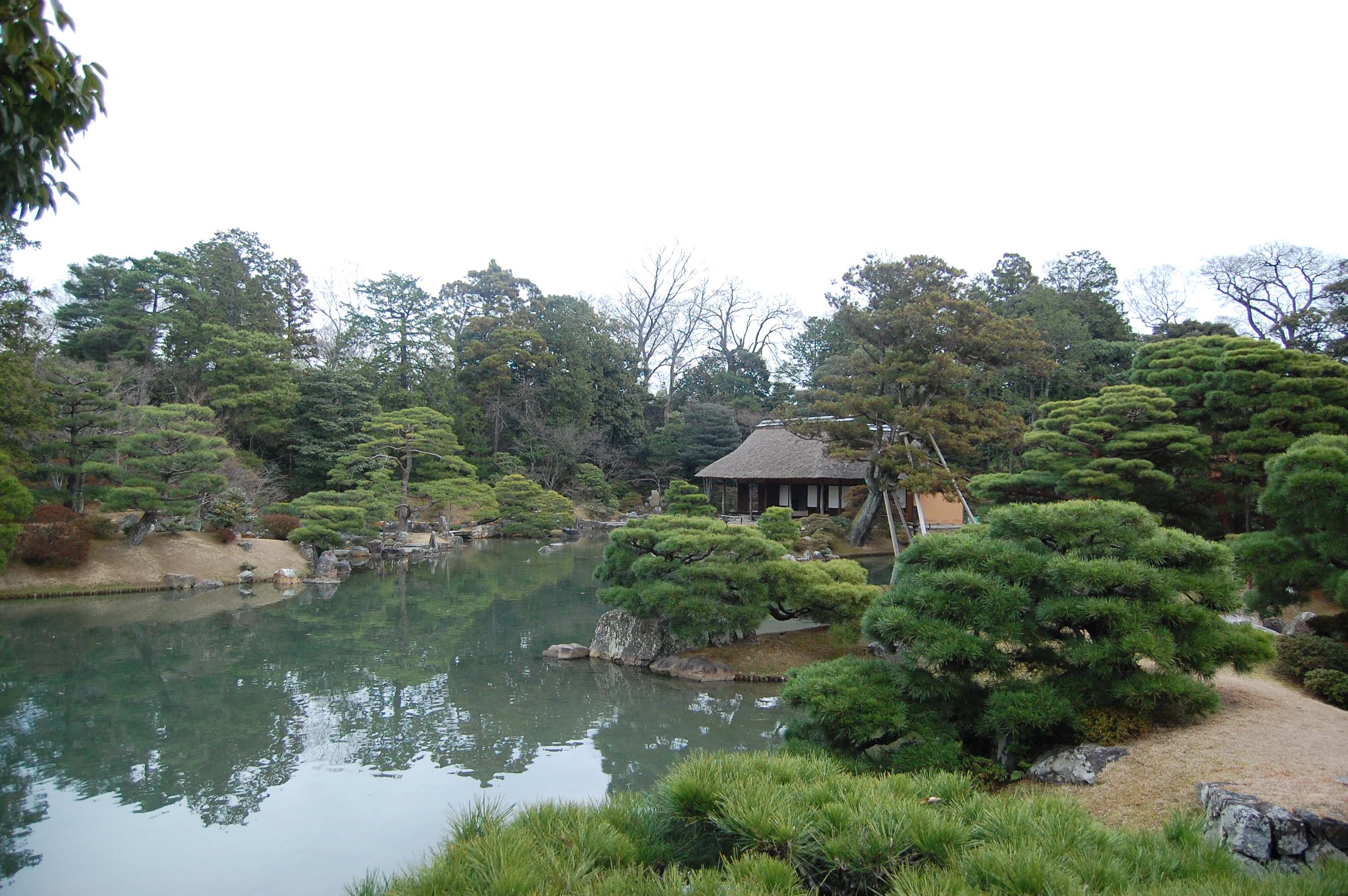 Shokin-tei seen from Geppa-ro